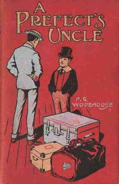 Front cover of Wodehouse, P.G. (1903). A Prefect's Uncle. London: A & C Black